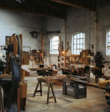 One of the first panel saws from the year 1906 at the Tischlerei-Museum Bremen (“Carpentry museum Bremen”).